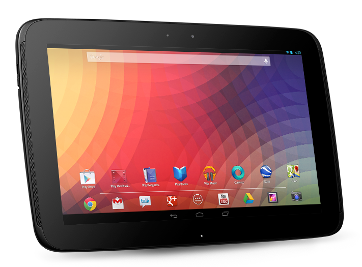 Photo of the Nexus 10, taken from which is released under CC 2.5 Attribution. Portions of this page are reproduced from work created and shared by the Android Open Source Project and used according to terms described in the Creative Commons 2.5 Attribution License. [1].